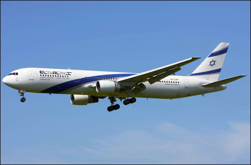 El Al Boeing 767-300ER number 4X-EAP